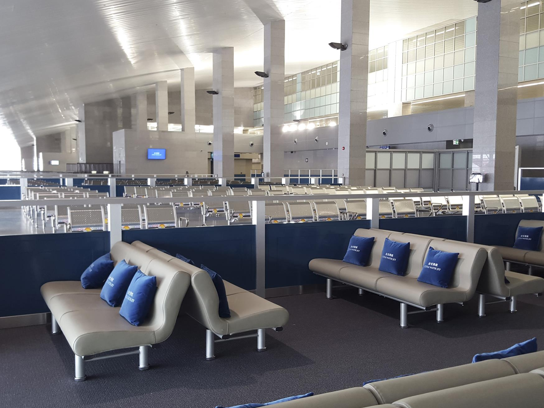 Waiting area inTaipa Ferry Terminal